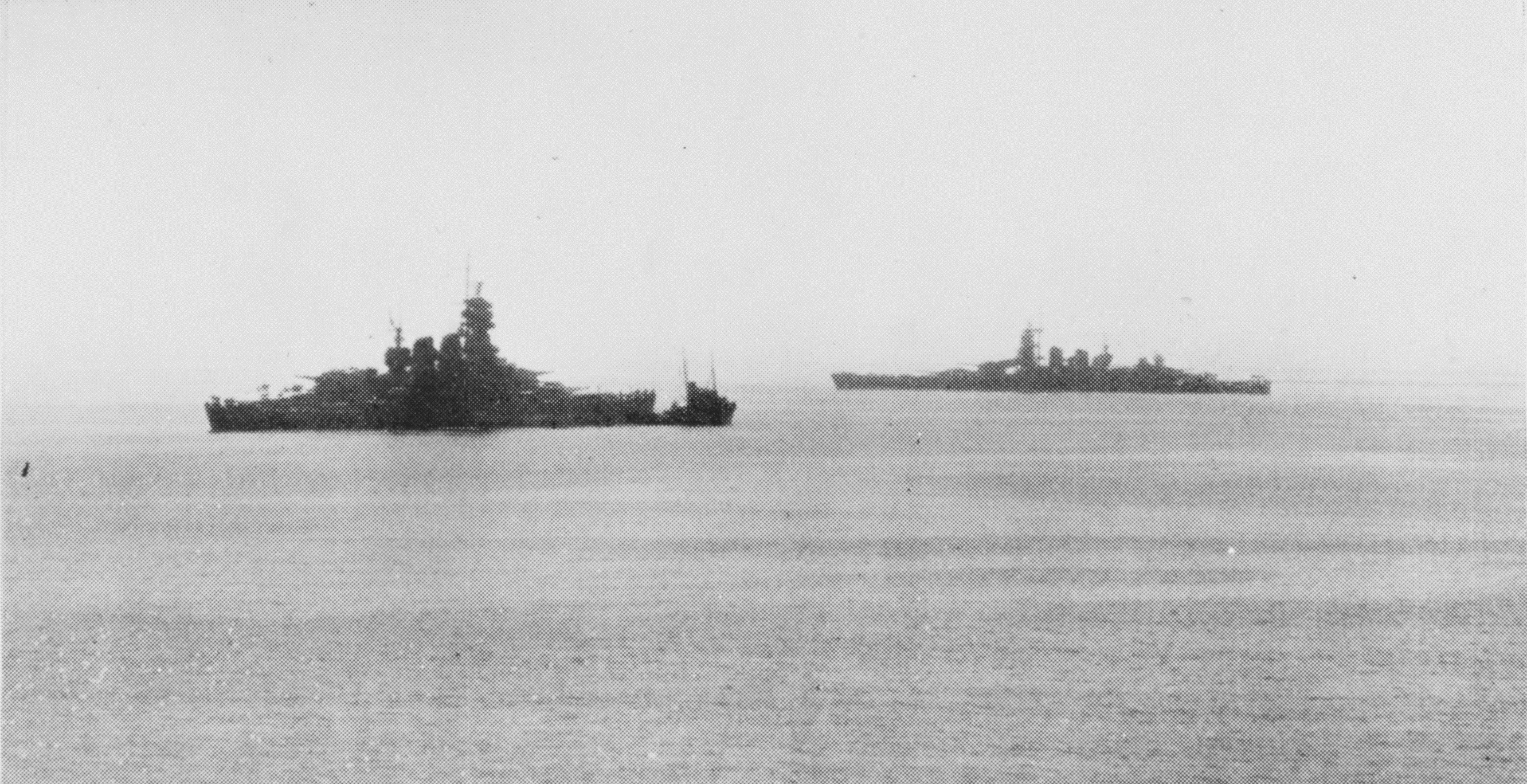 Italian battleships and at Malta following the Italian surrender in September 1943.